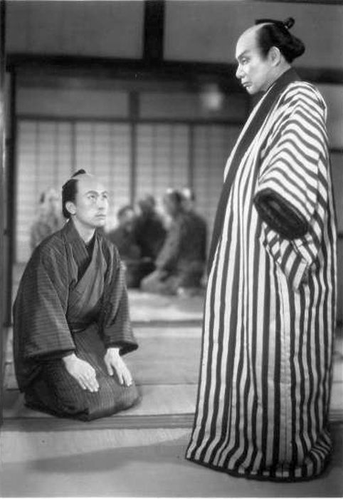 Scene of Danjurō sandai (団十郎三代) directed by Kenji Mizoguchi - 1944